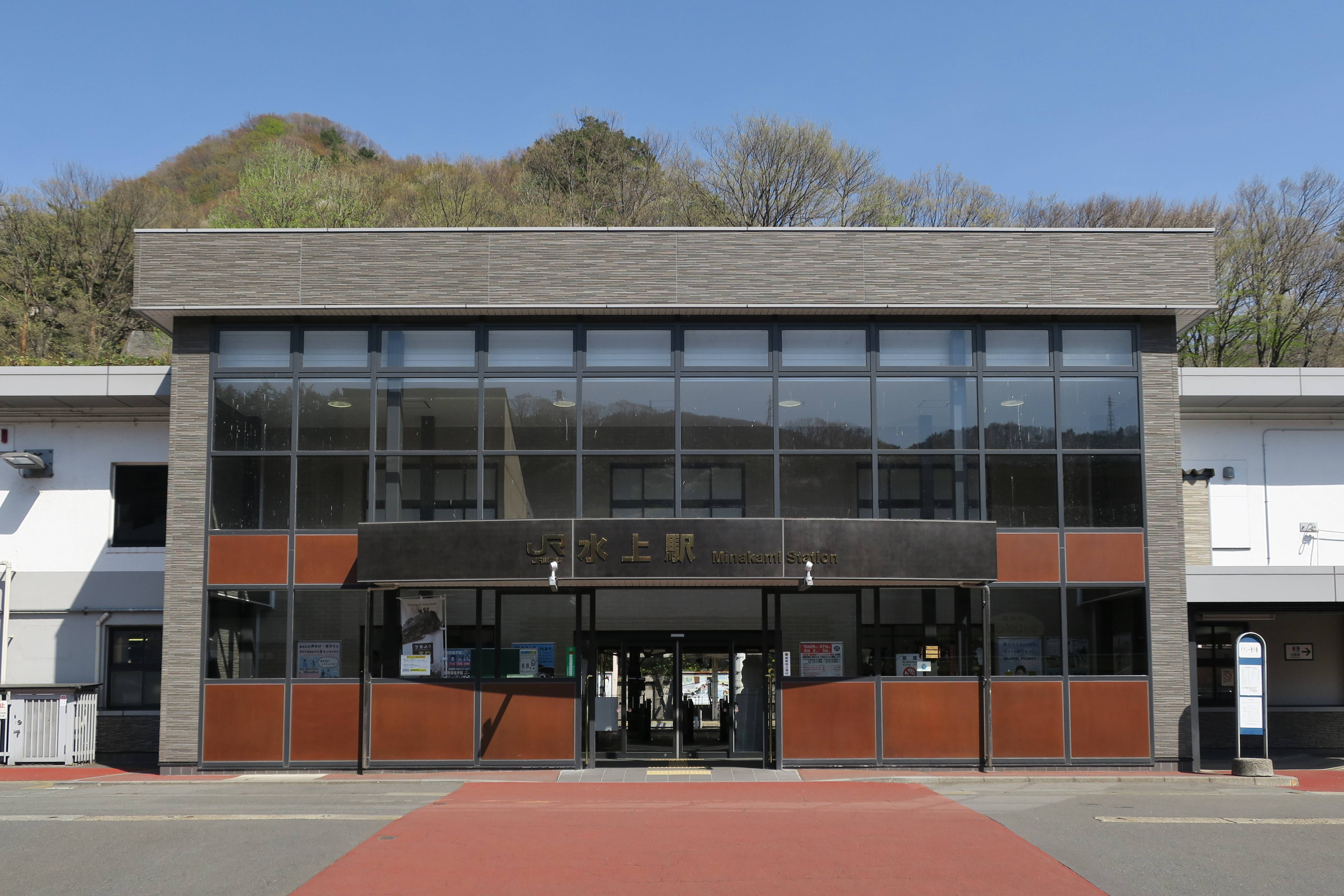 Minakami Station.